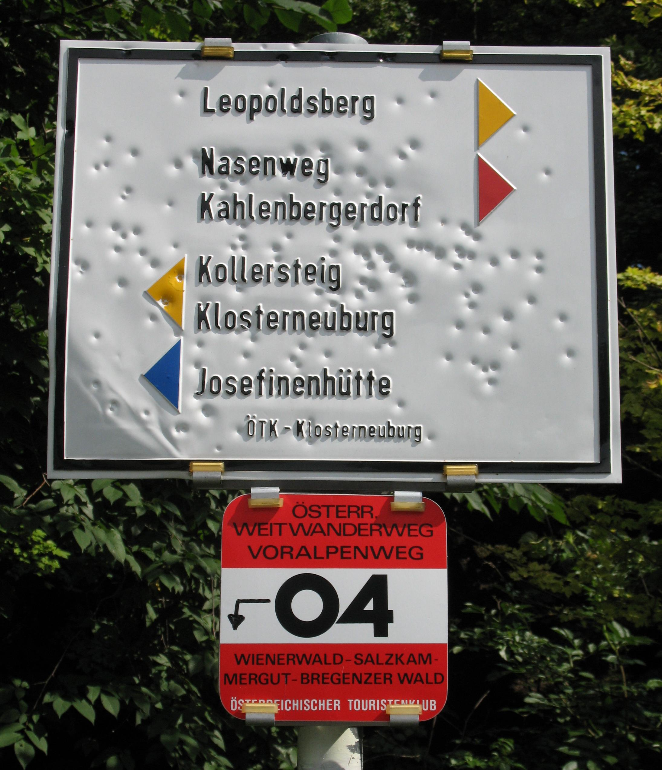 Hiking sign on Leopoldsberg in Vienna, Austria